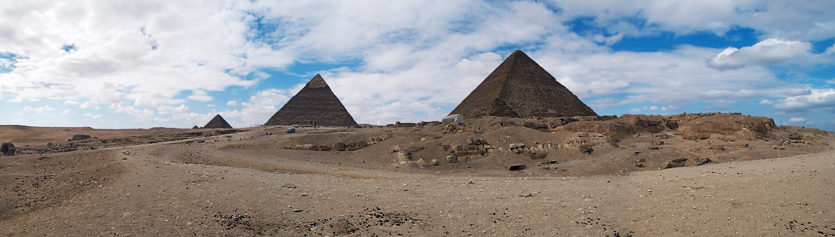 Giza pyramids, near cairo, egypt own photo, feb 6, 2005 photo: nomo/michael hoefner